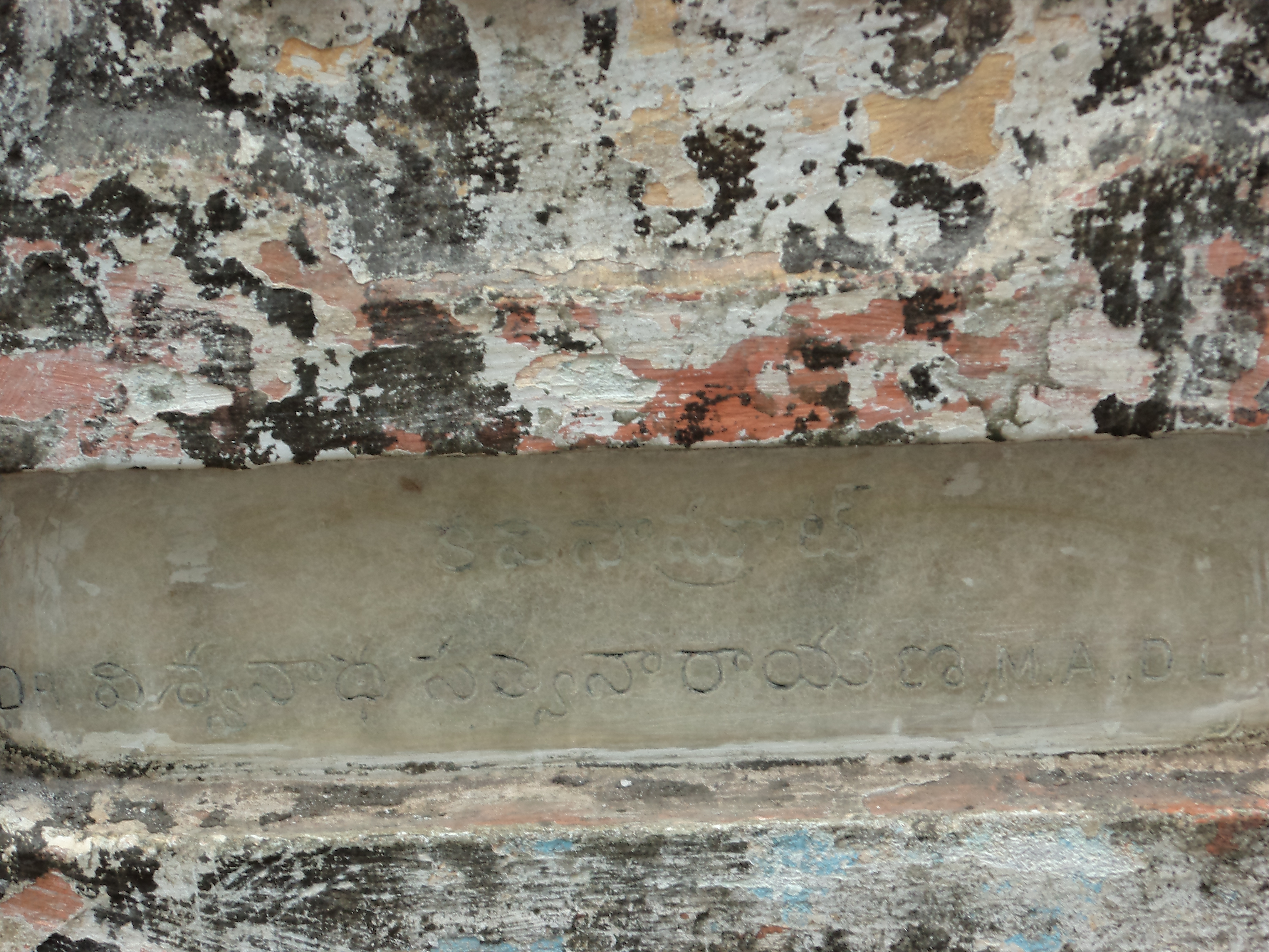 Viswanatha atyanarayana, a poet from Andhra Pradesh, Jnan pith award(the highest literature award in India) winner, his memories, his home and his posessions.